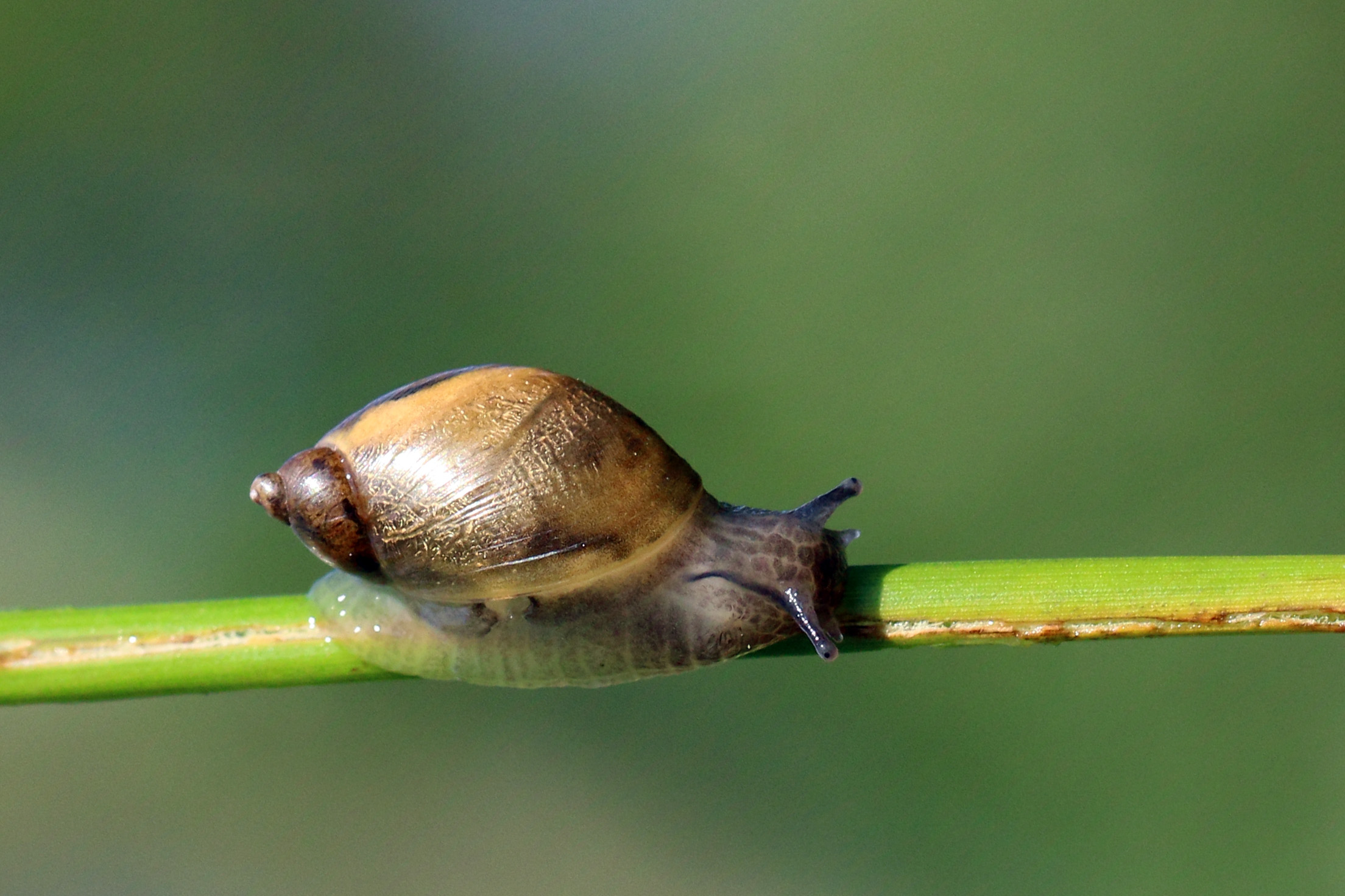 Amber snail (Succinea putris) in Oxfordshire